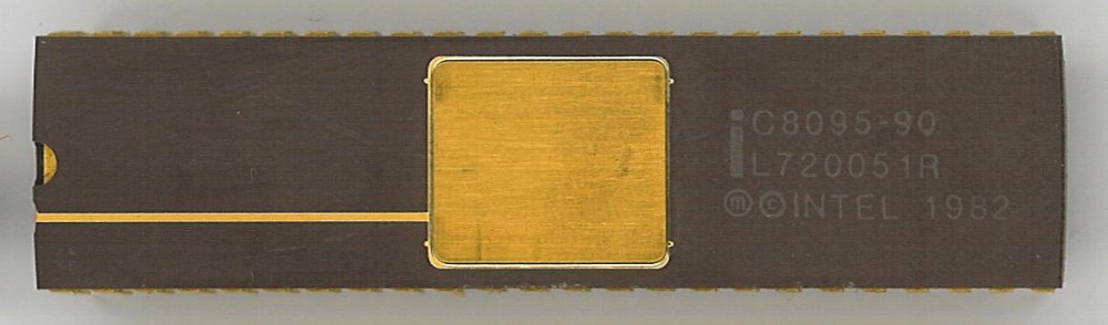 IC photo